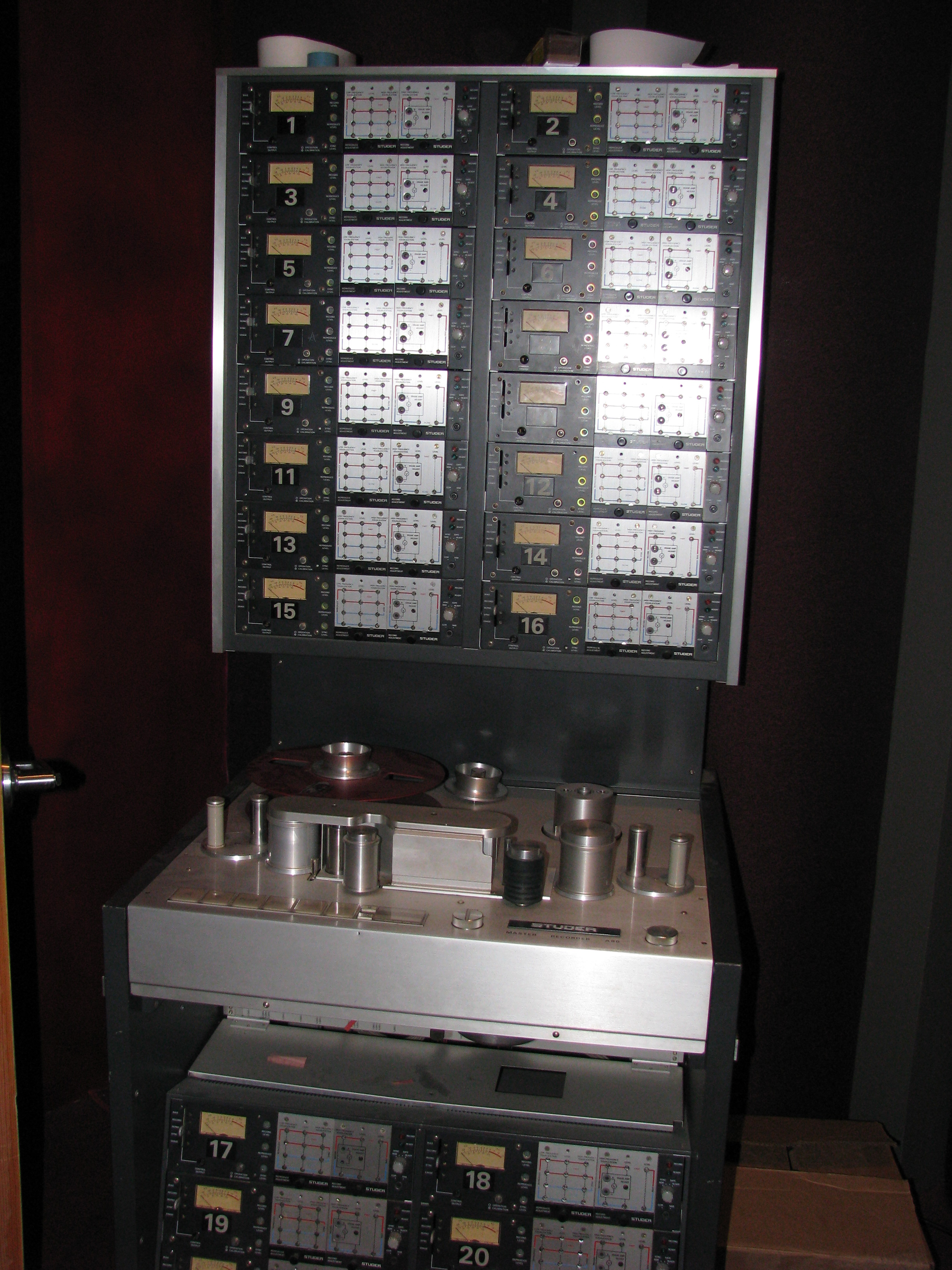 Studer A80 24-track recorder The Enrolling Stones at Downtown Recording, Louisville, KY (1/10/09)